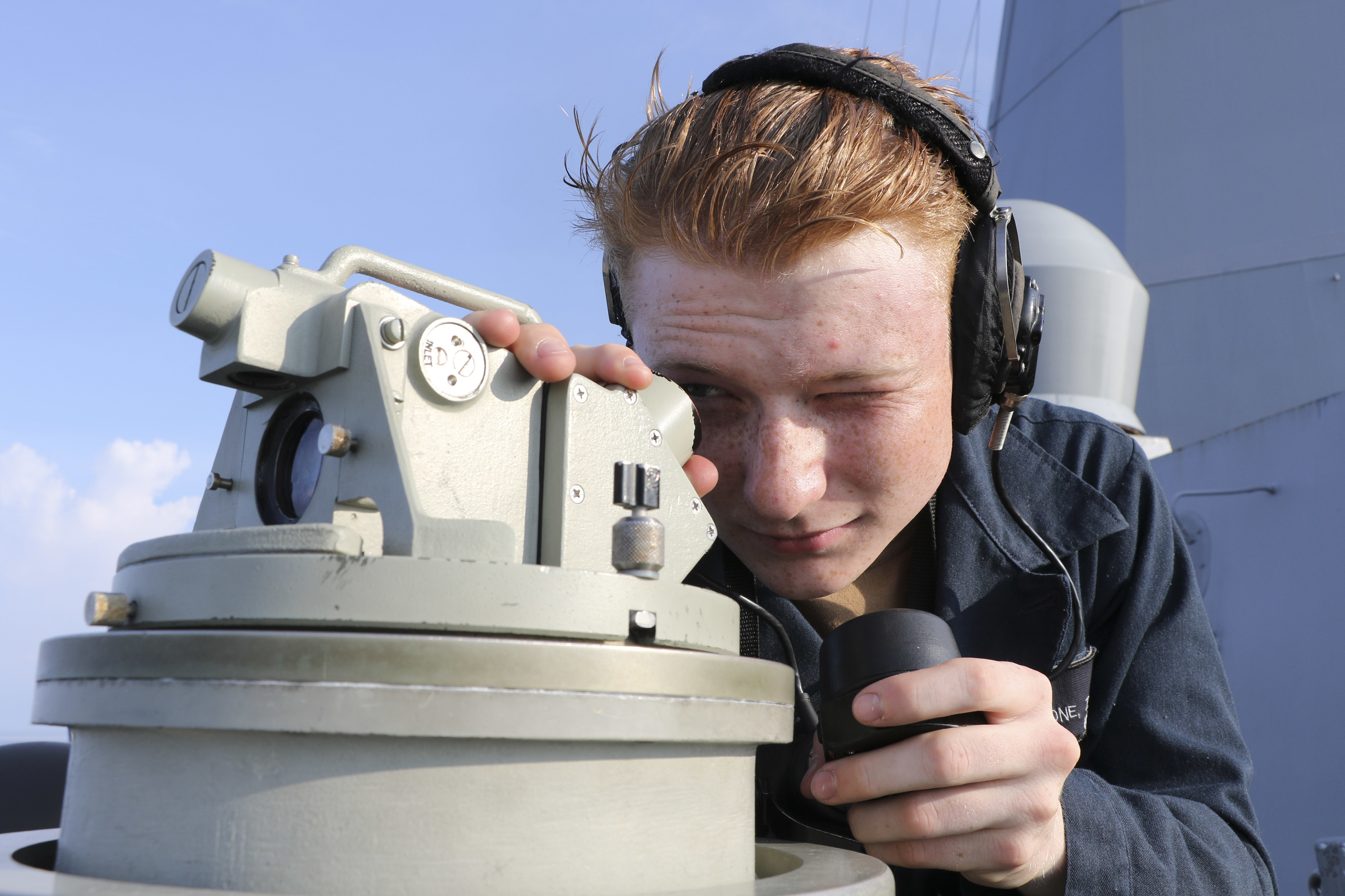 191001-N-DX072-1086 CELEBES SEA (Oct. 1, 2019) Quartermaster 3rd Class Zachary Gladstone, from Branford, Connecticut, reads a surface contact bearing using a telescopic alidade on the starboard bridge-wing of the amphibious transport dock ship USS Green Bay (LPD 20) during an anchorage evolution as part of exercise Tiger Strike 2019. Tiger Strike 19 focuses on strengthening joint military interoperability and on increasing readiness by practicing humanitarian assistance, disaster relief, amphibious and jungle warfare operations, all while fostering cultural exchanges between the Malaysian Armed Forces (MAF) and the U.S. Navy, Marine Corps team. (U.S. Navy photo by Mass Communication Specialist 2nd Class Anaid Banuelos Rodriguez)